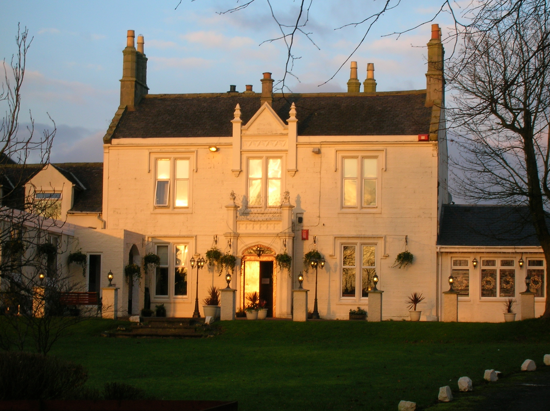 Burnhouse Manor Hotel, Burnhouse, North Ayrshire, Scotland.